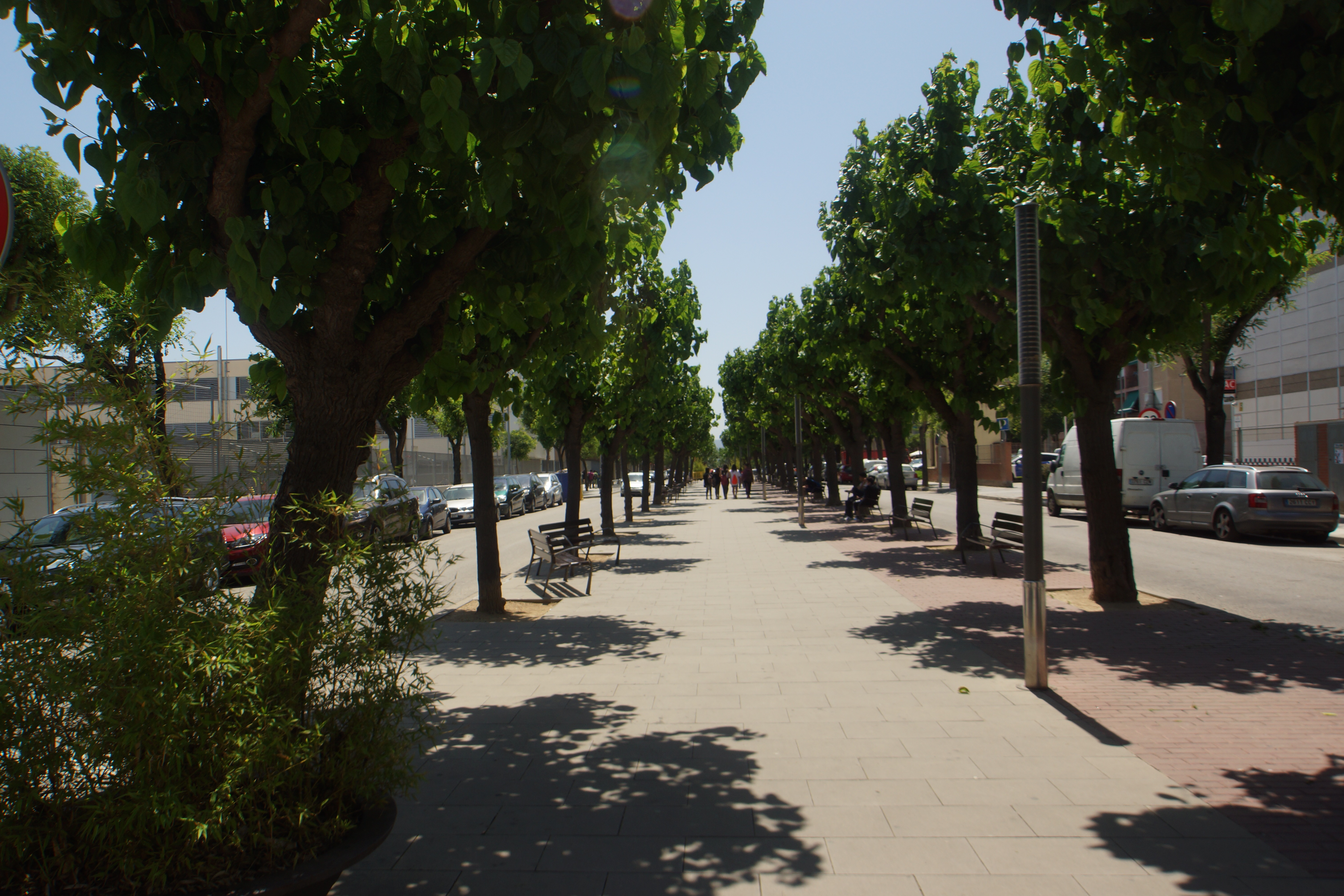 La Llagosta, Catalonia: Pintor Sert Avenue